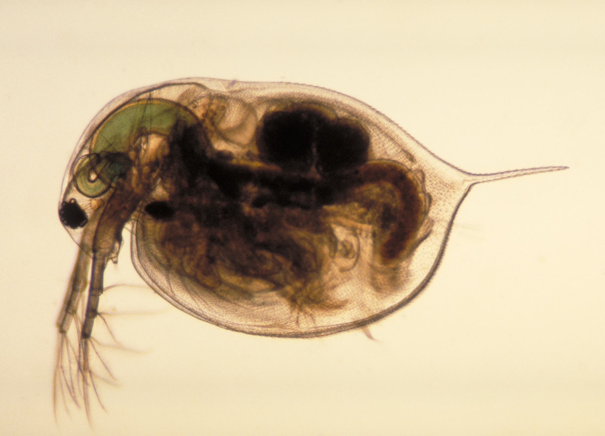 Experiments with Daphnia magna, the water flea, show that traditional extinction models may be underestimating extinction risk.